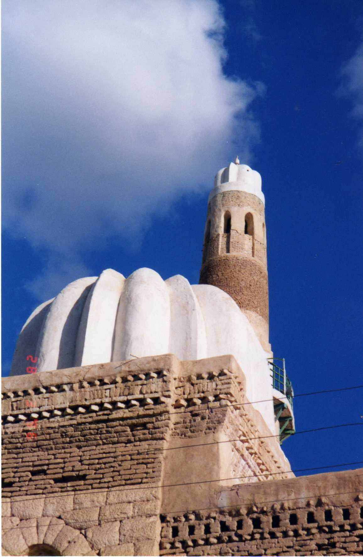 A mosque seen in Sa'ada, Yemen Picture from my private archives, taken in March 1996